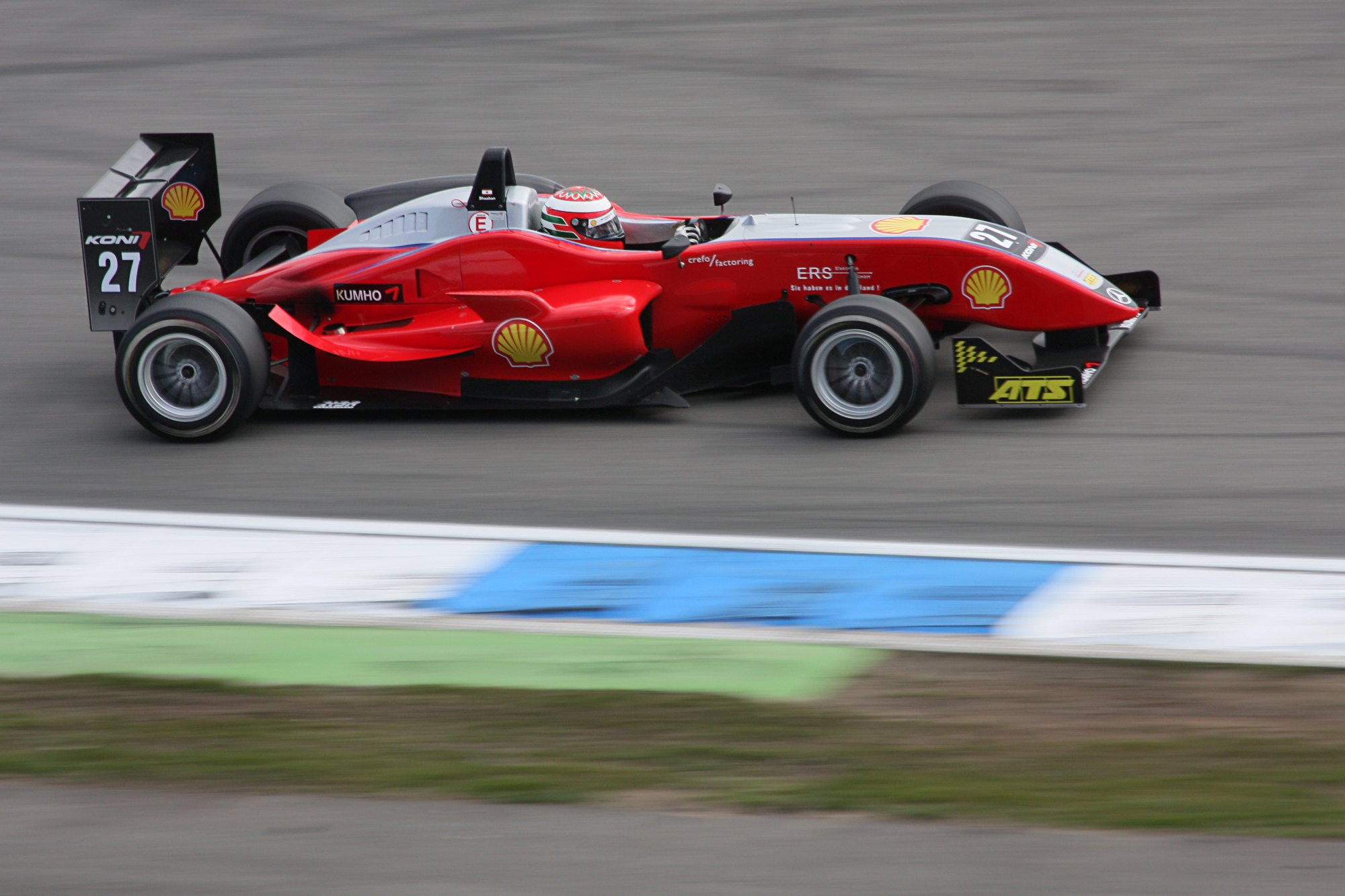 Formula three racing car at Hockenheimring. #27 Basil Shaaban (HBR Motorsport)